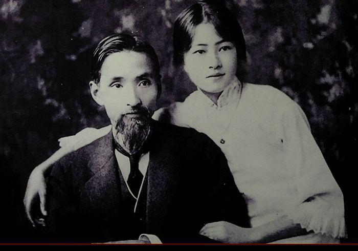 Lin Changmin and his daughter Lin Huiyin in London